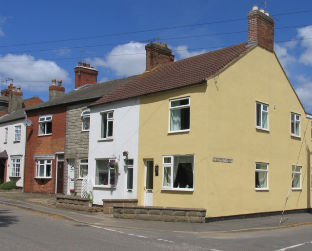 Bricks? What bricks? An old terrace with most of the brickwork obscured by rendering, paint and "stone" cladding. Very few lintels over the windows are visible either.